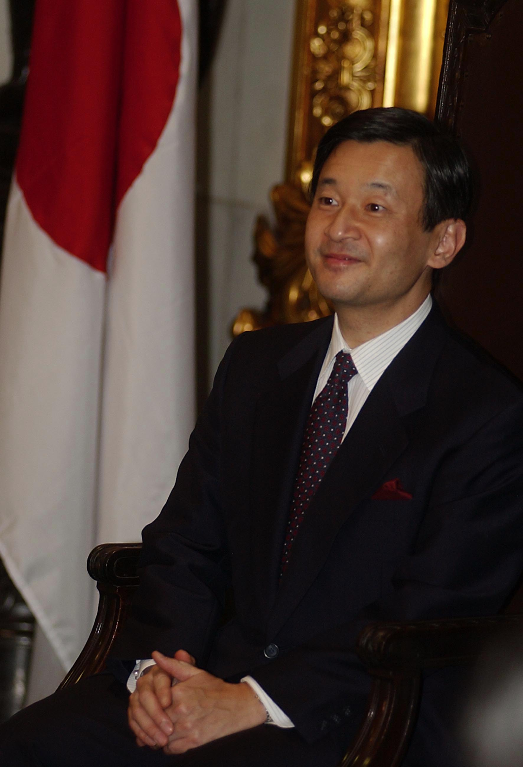 Naruhito, Crown Prince of Japan, in Brazil.